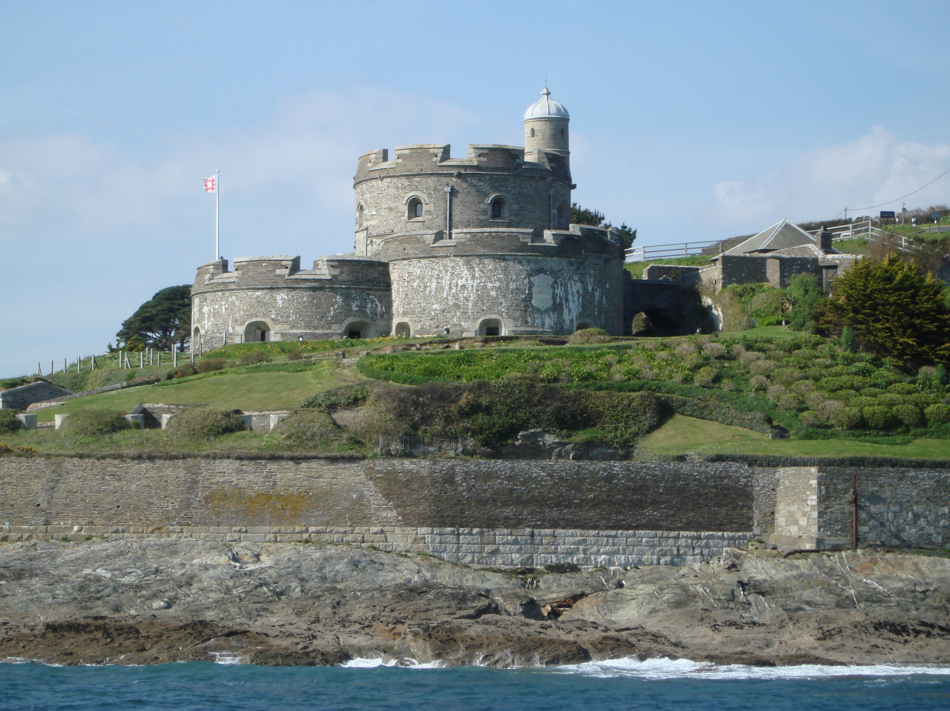 St Mawes Castle, St Mawes, Cornwall, England - taken from the St Mawes ferry